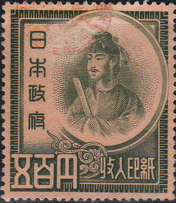 revenue 500Yen of Shotoku Taishi in 1948